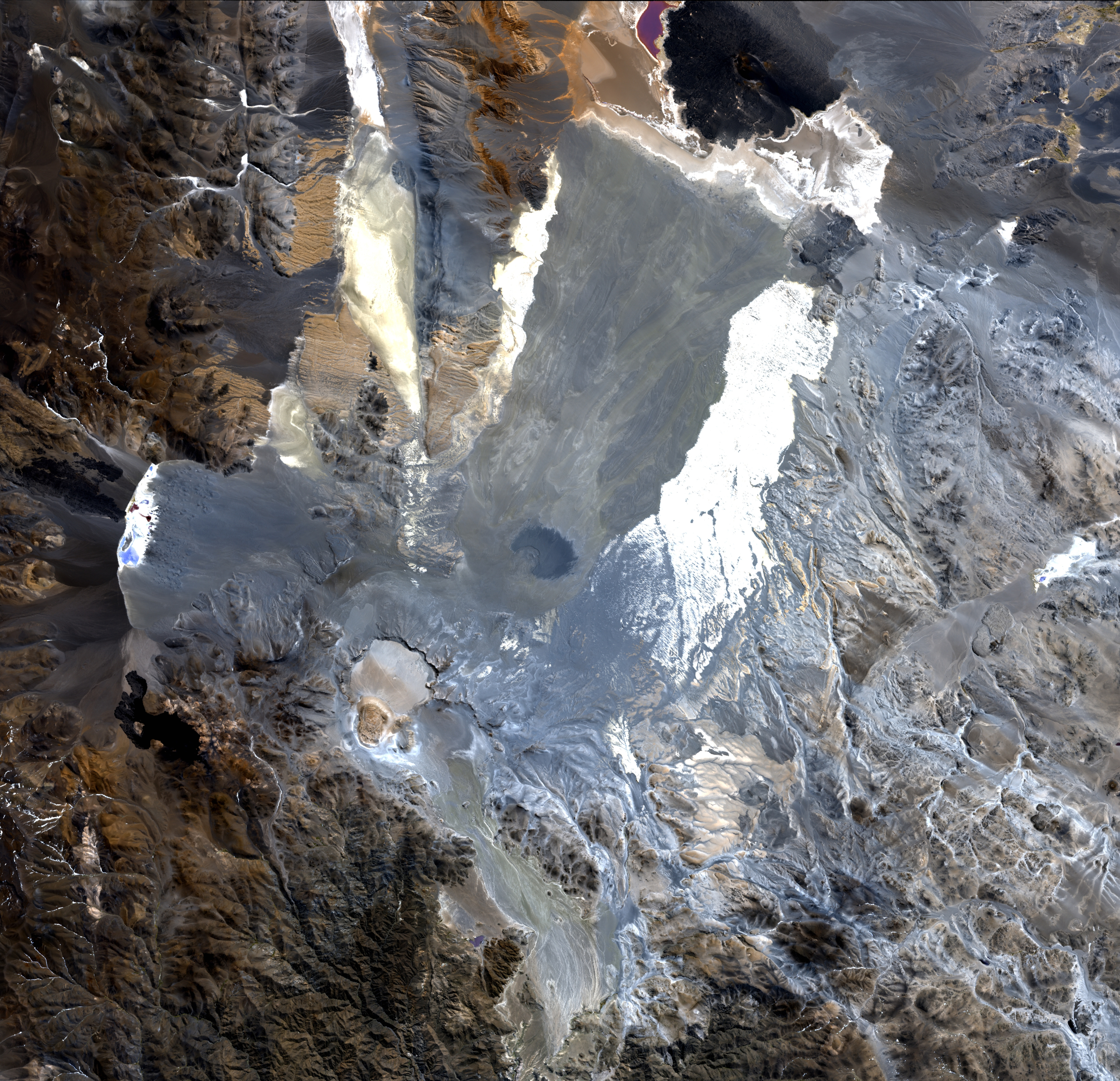 ASTER visual image of the Cerro Blanco volcanic complex in Argentina. They yellow-grey flat area slightly left-below centre is the Cerro Blanco caldera.